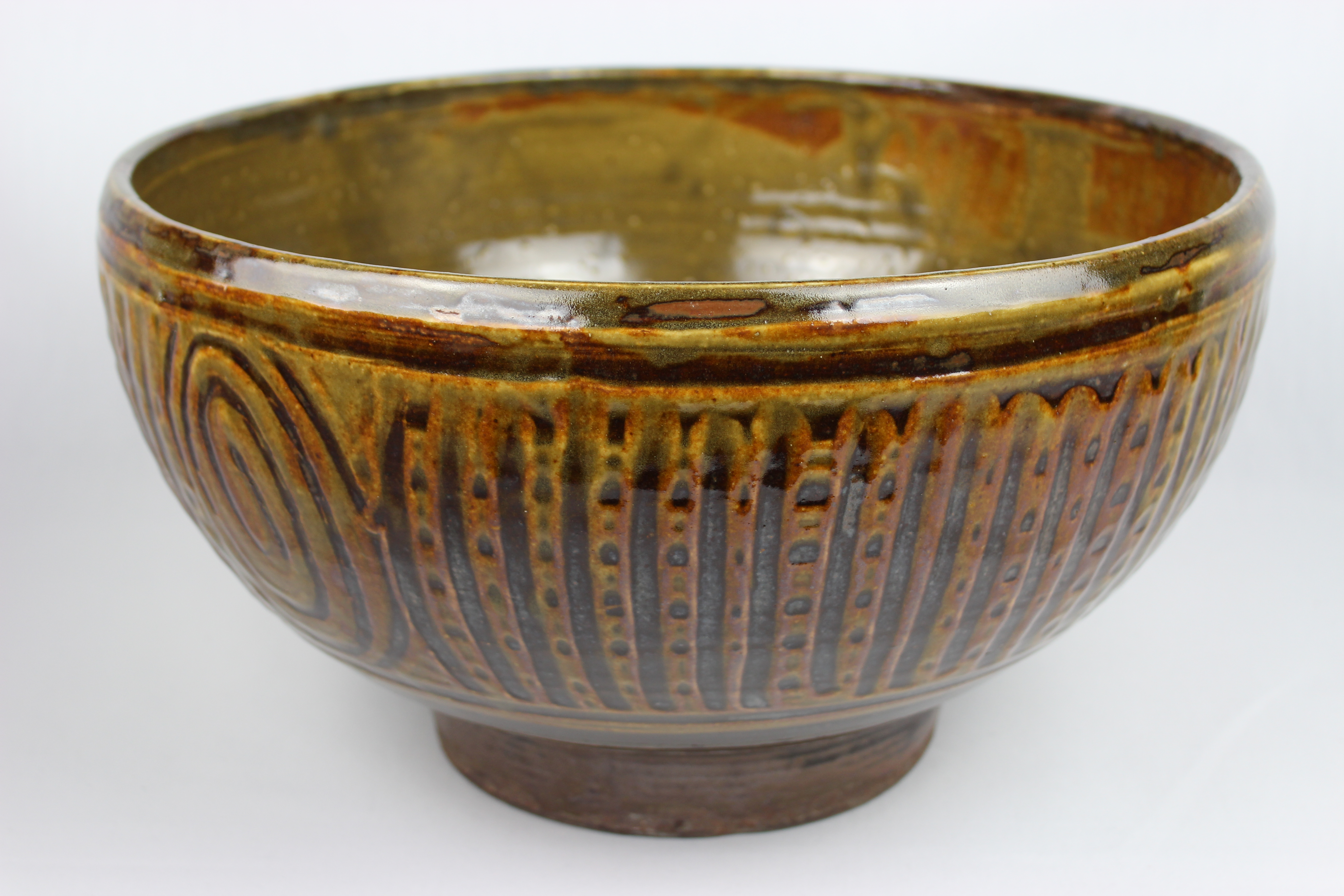 Large "basket" bowl with incised decoration, thick foot ring and orange, yellow and brown glaze. From the W.A. Ismay Studio Ceramics Collection at York Art Gallery